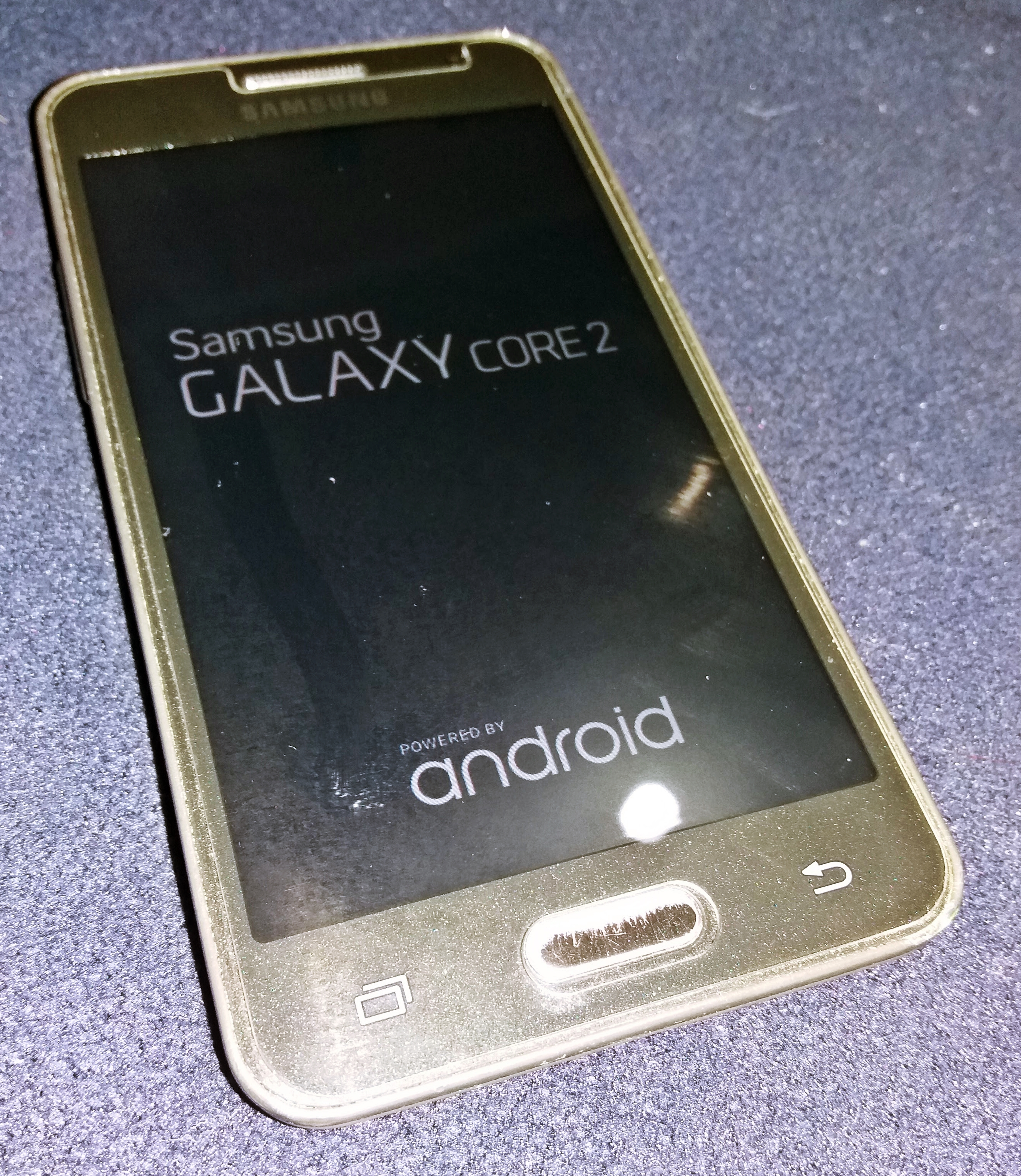 A Samsung Galaxy Core 2 SM-G355M running on your version of Android 4.4.2 when switching on powered by Android